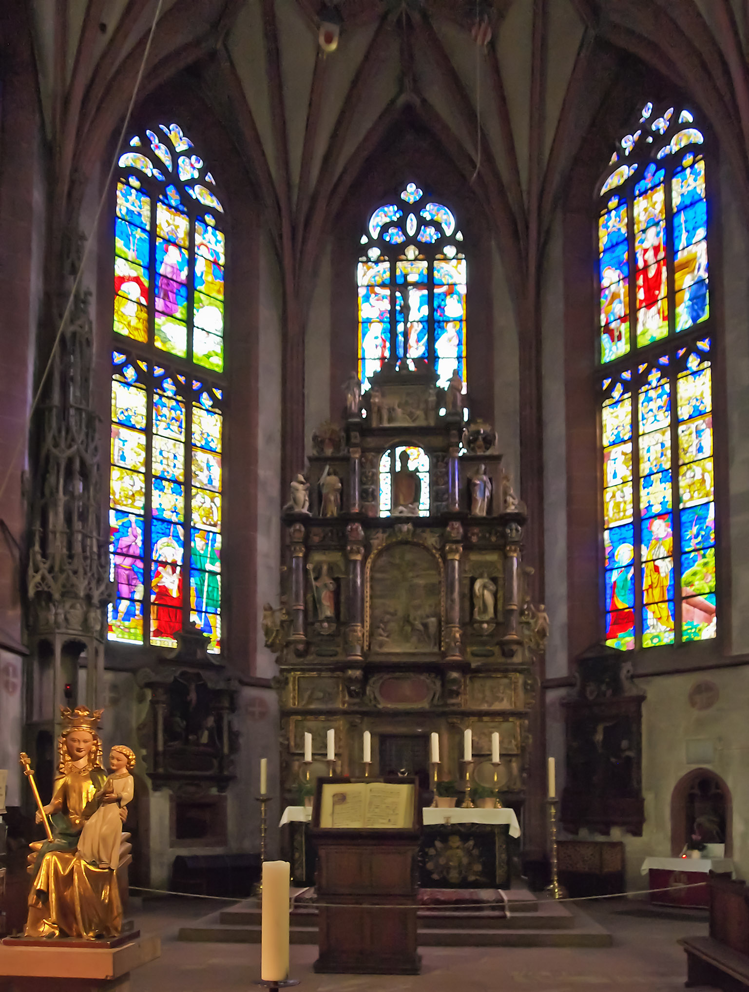 Catholic pilgrimage church consecrated to Saint Valentine in Kiedrich, Hesse, Germany